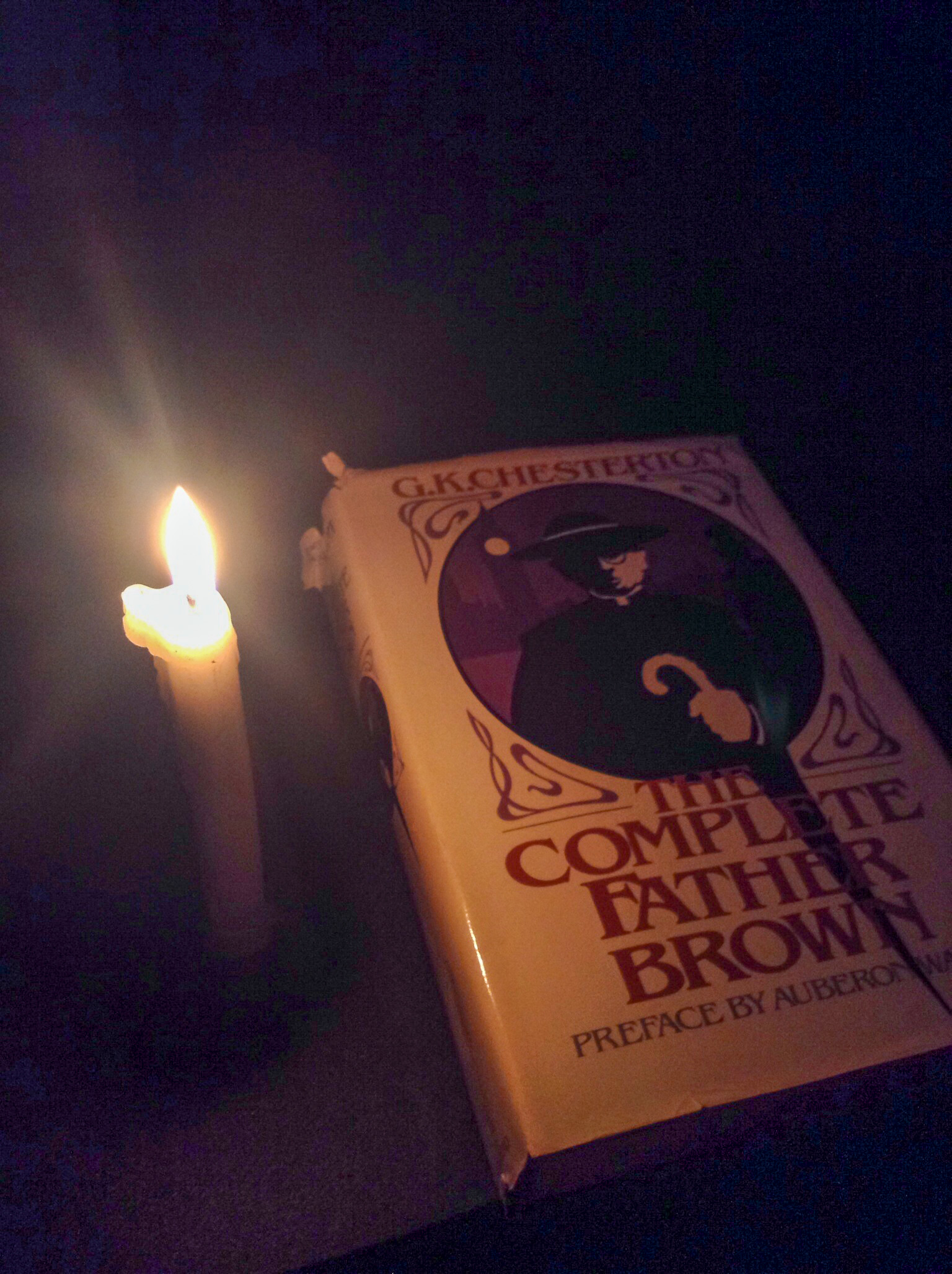 The complete Father Brown, preface by Auberon Waugh